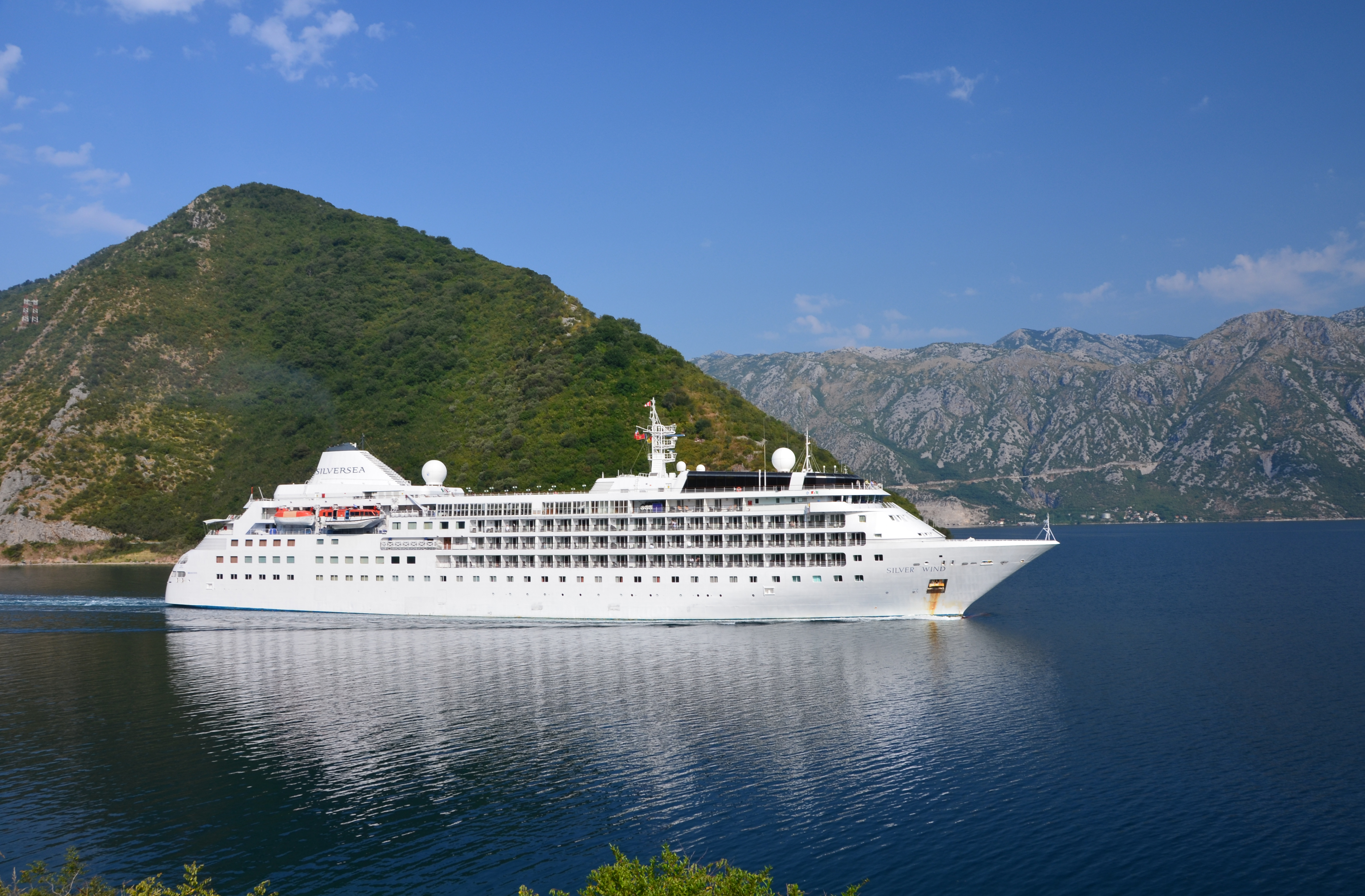 The cruise ship Silver Wind in the bay of Kotor, viewed from Lepetani's road, in Montenegro.